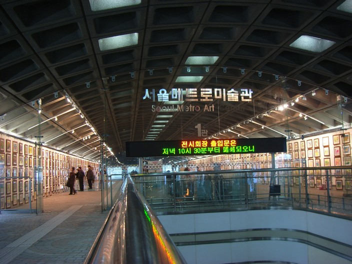 Gyeongbokgung Station